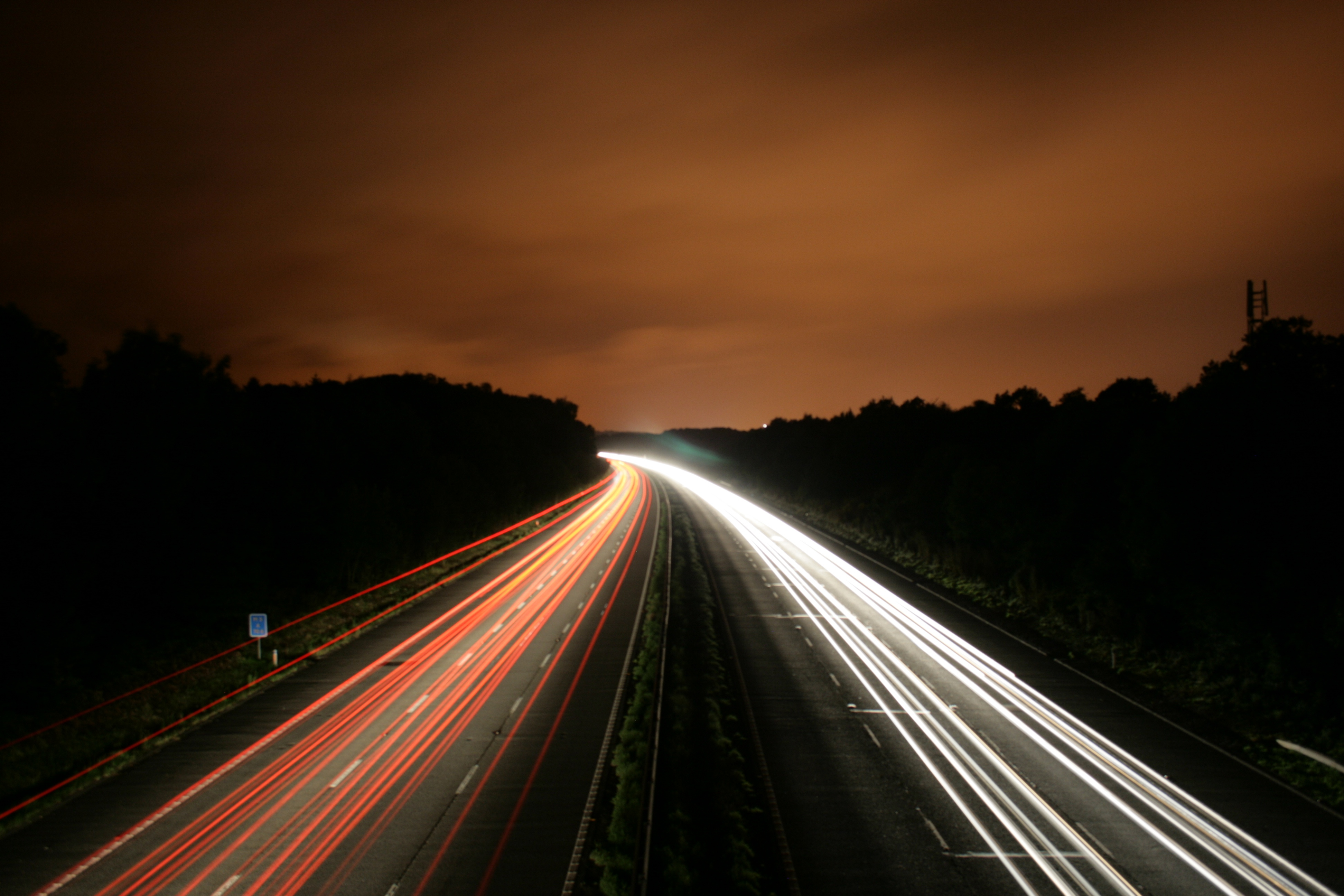 A photo of the M3 just outside Basingstoke taken at night on a 30 second exposure